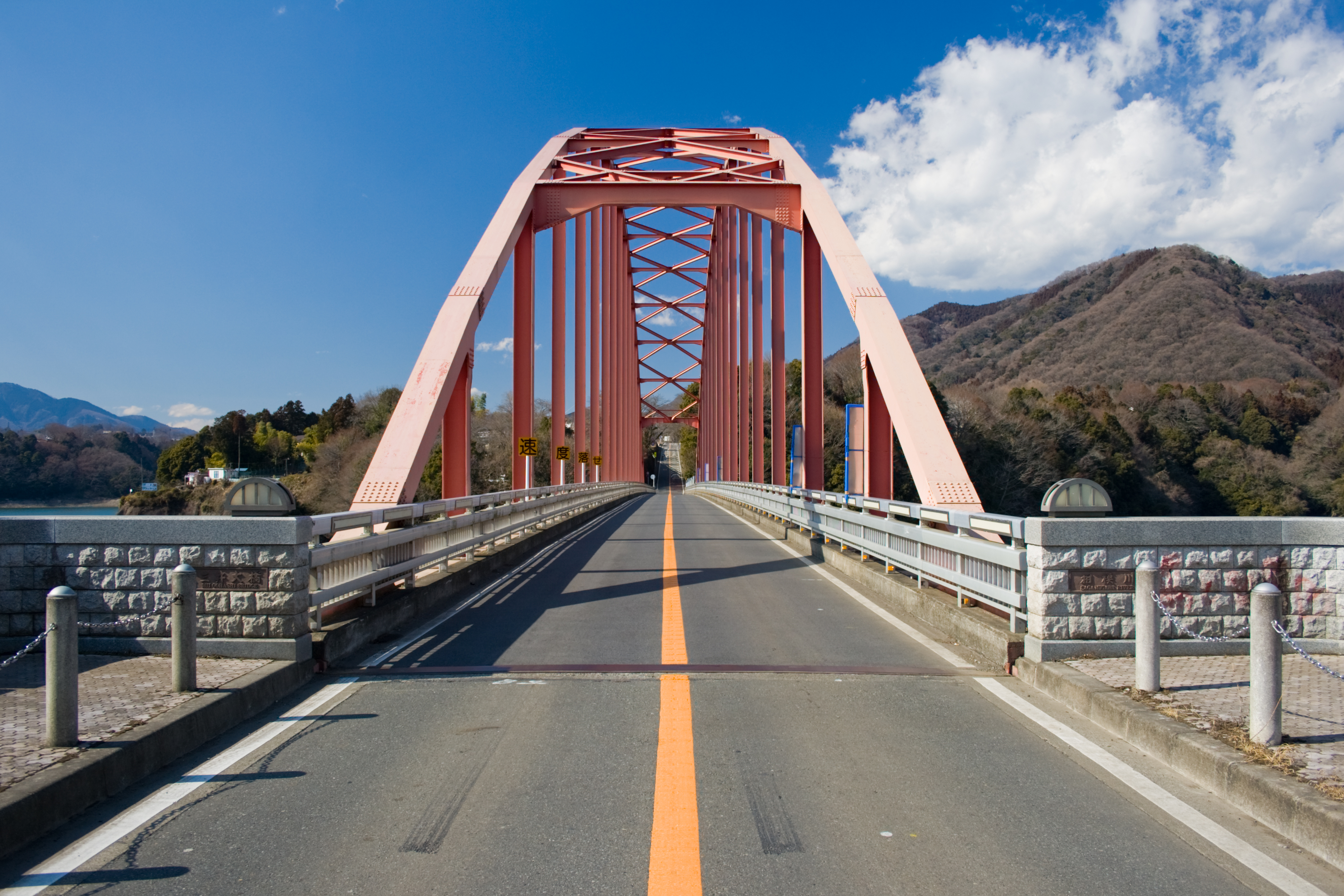 Mii-Bridge (Mii-ōhashi) of Lake Tsukui in Kanagawa, Japan.